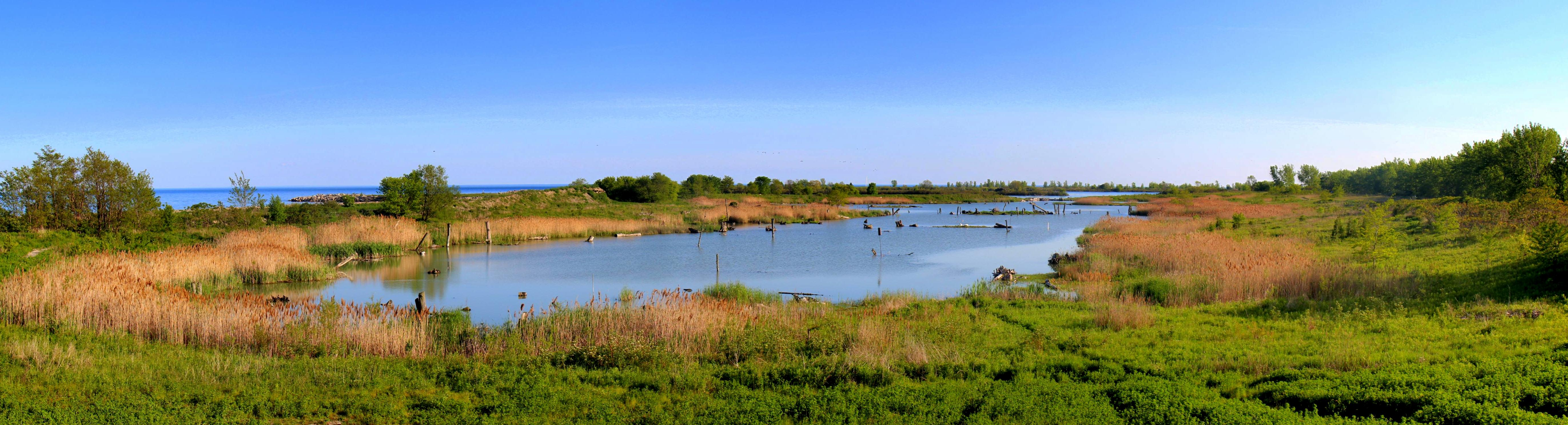 Tommy Thompson